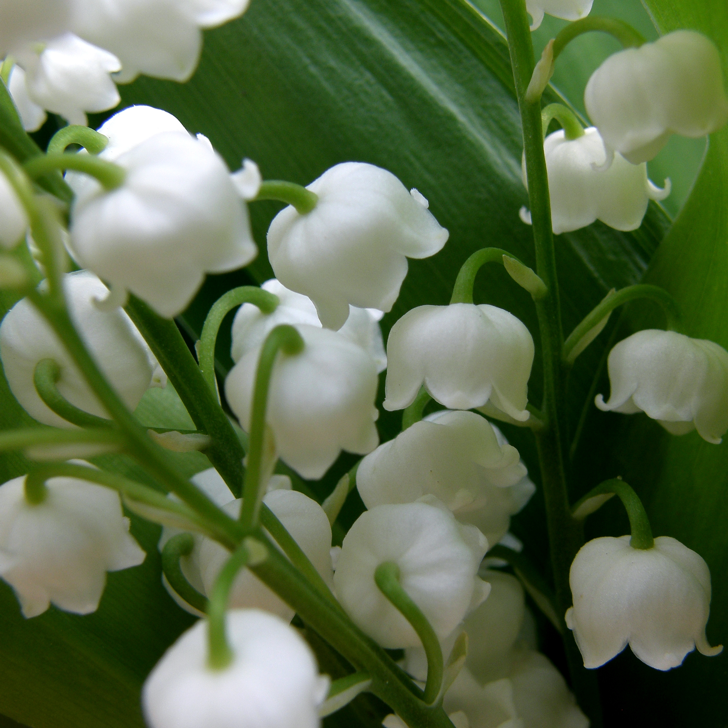 lily of the valley Convallaria majalis